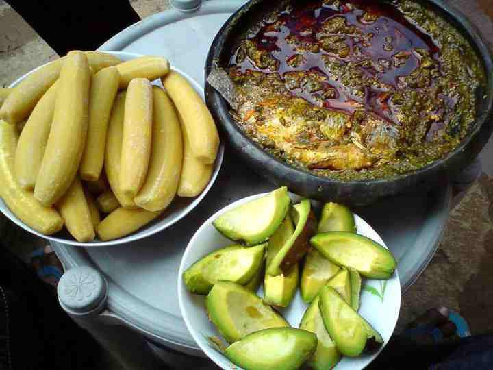 Boiled plantain with kontomire stew, garnished with pear. This is an image of food from Ghana